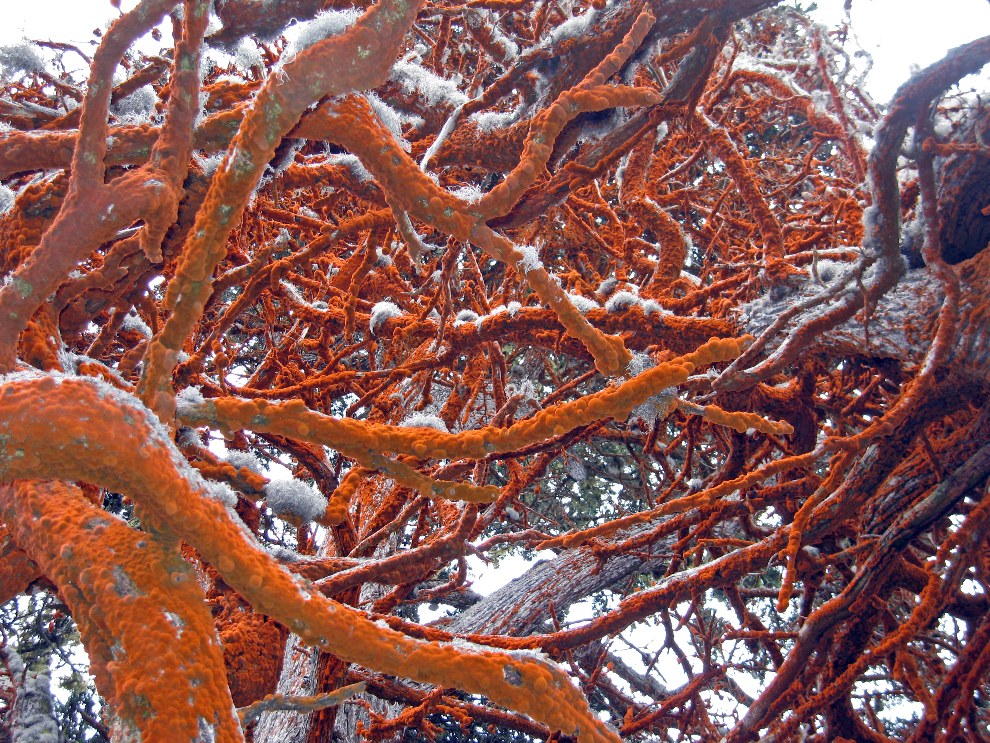 A microscopic algae (Trentepohlia aurea v. polycarpa) growing on Monterey cypress trees in Point Lobos State Reserve, California. The orange color comes from one of the pigments, beta carotene